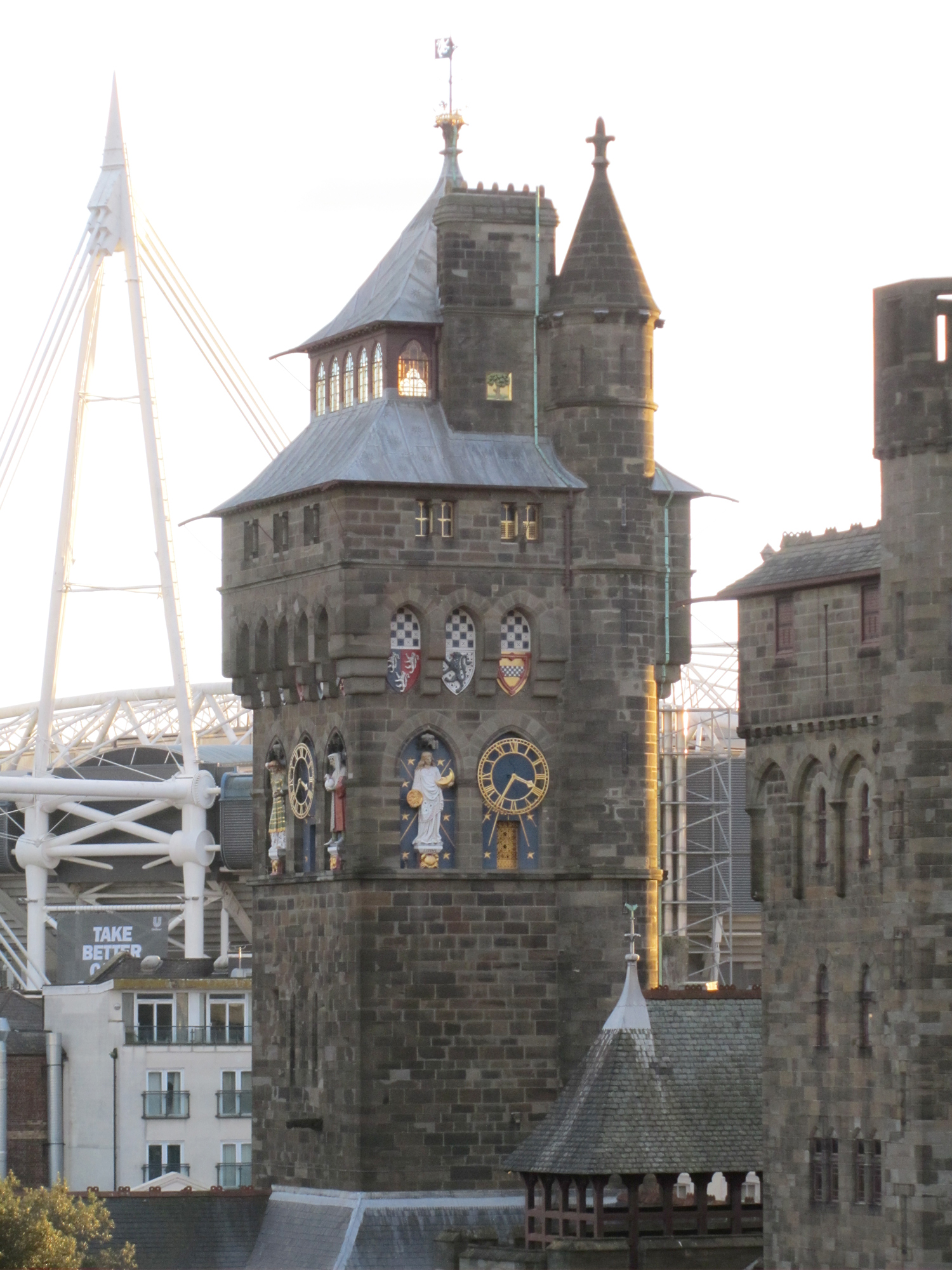 The clock tower of Cardiff Castle